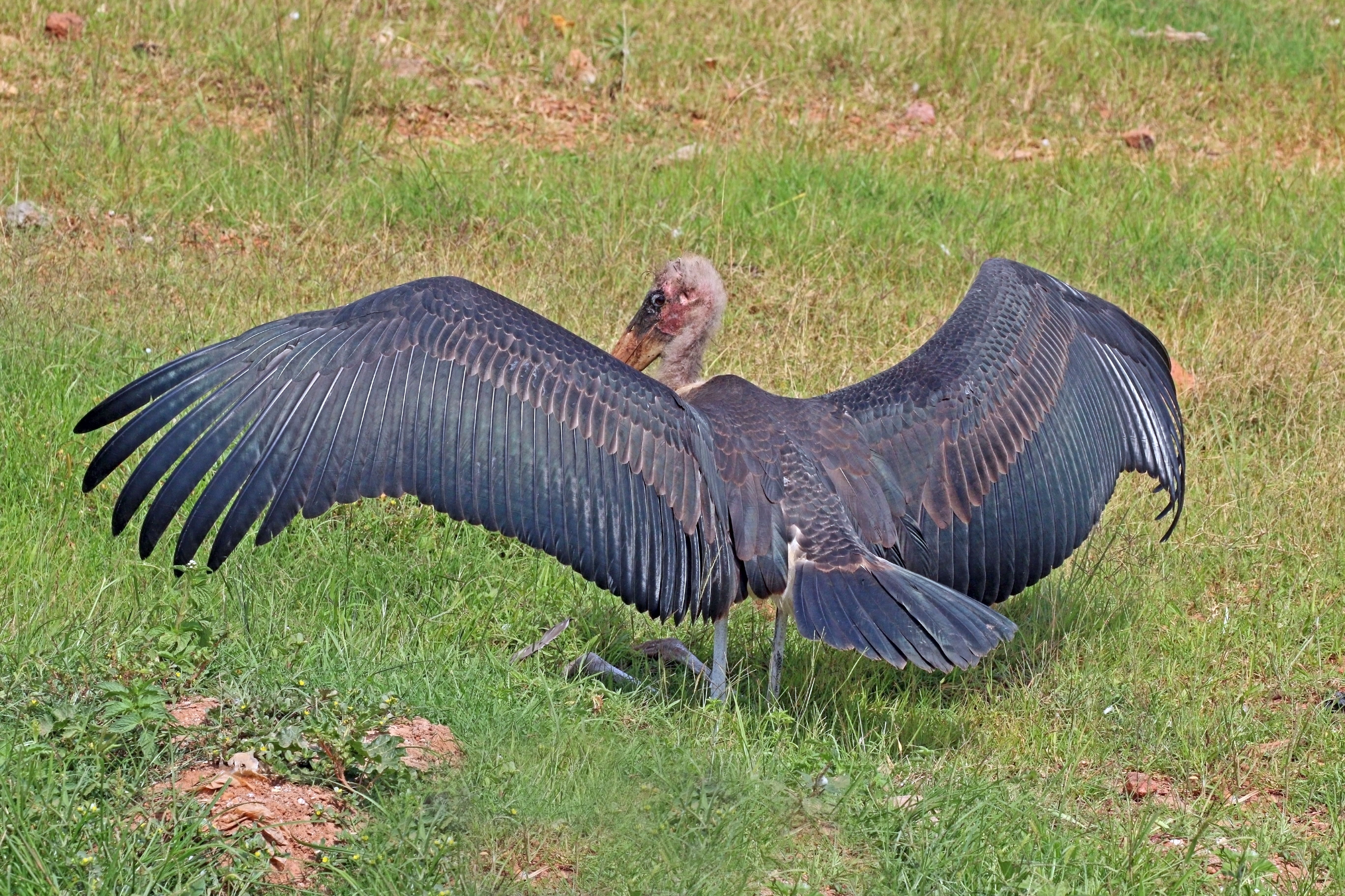 Marabou stork (Leptoptilos crumenifer), spreading wings with back to the sun, Uganda